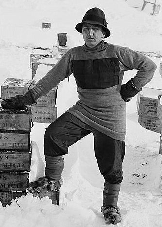 Henry Robertson Birdie Bowers (1883-1912), member of the Terra Nova Expedition (1910-1913)